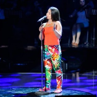 at the Semi Finals